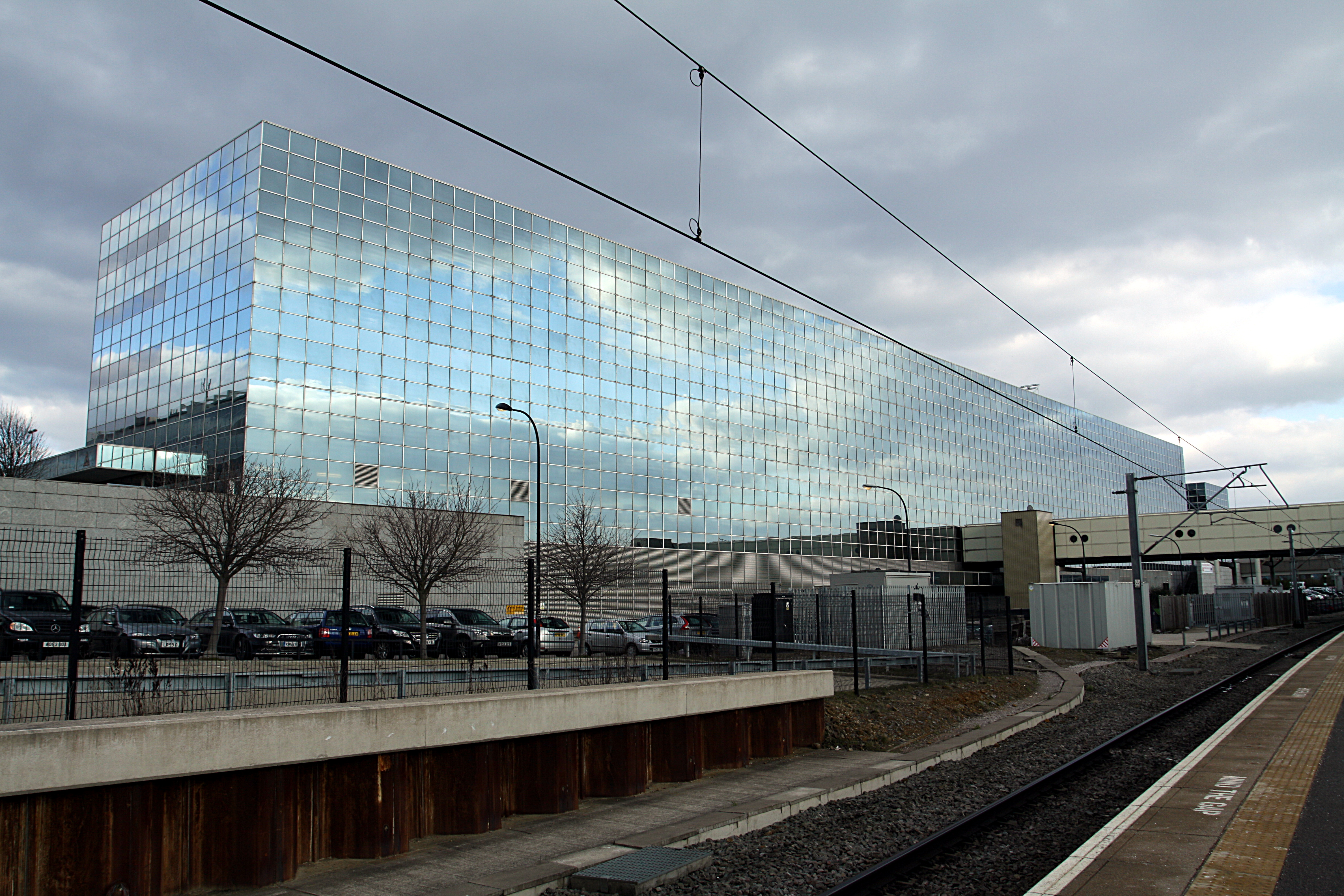 Milton Keynes Central railway station photographed from Platform 1 in Milton Keynes, England, Great Britain. - Google Maps - Google Earth